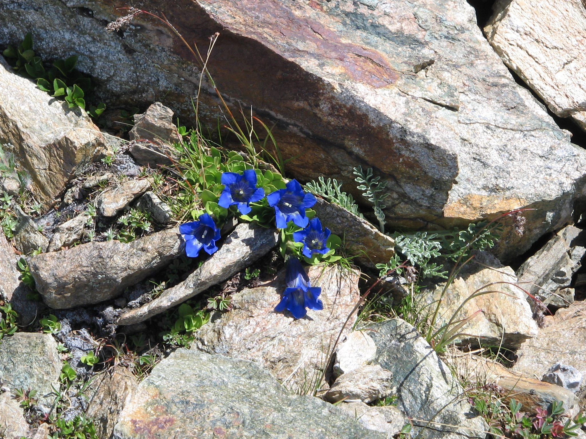 Gentiana alpina